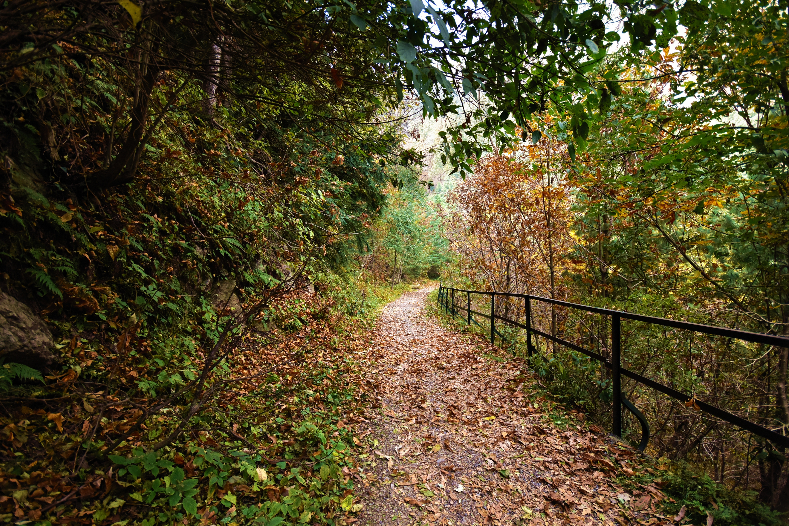 Aperture: f/4 ISO Rating: 560 Flash used: No Location: Nathiagali, Ayubia Pipeline Track, Pakistan Photograph by Kamran Iftikhar Website